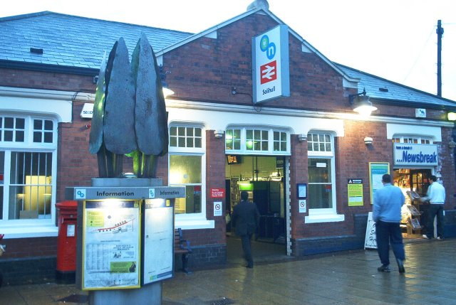 Solihull Station